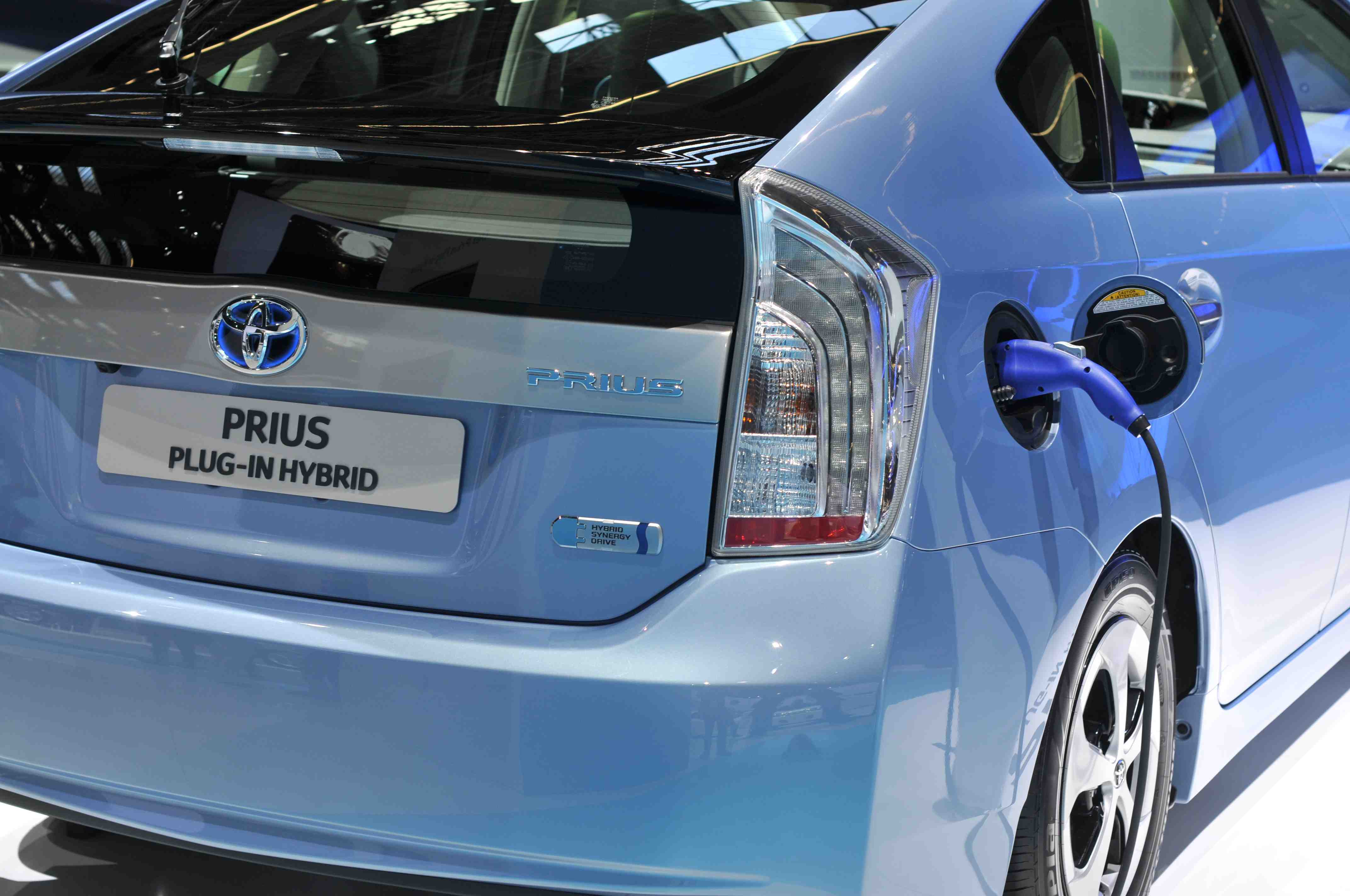 Production Prius Plug-in Hybrid unveiled at the 2011 Frankfurt Motor Show